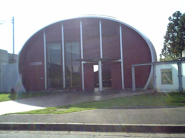 Kubiki Station in Jōetsu-shi, Niigata Prefecture, Japan